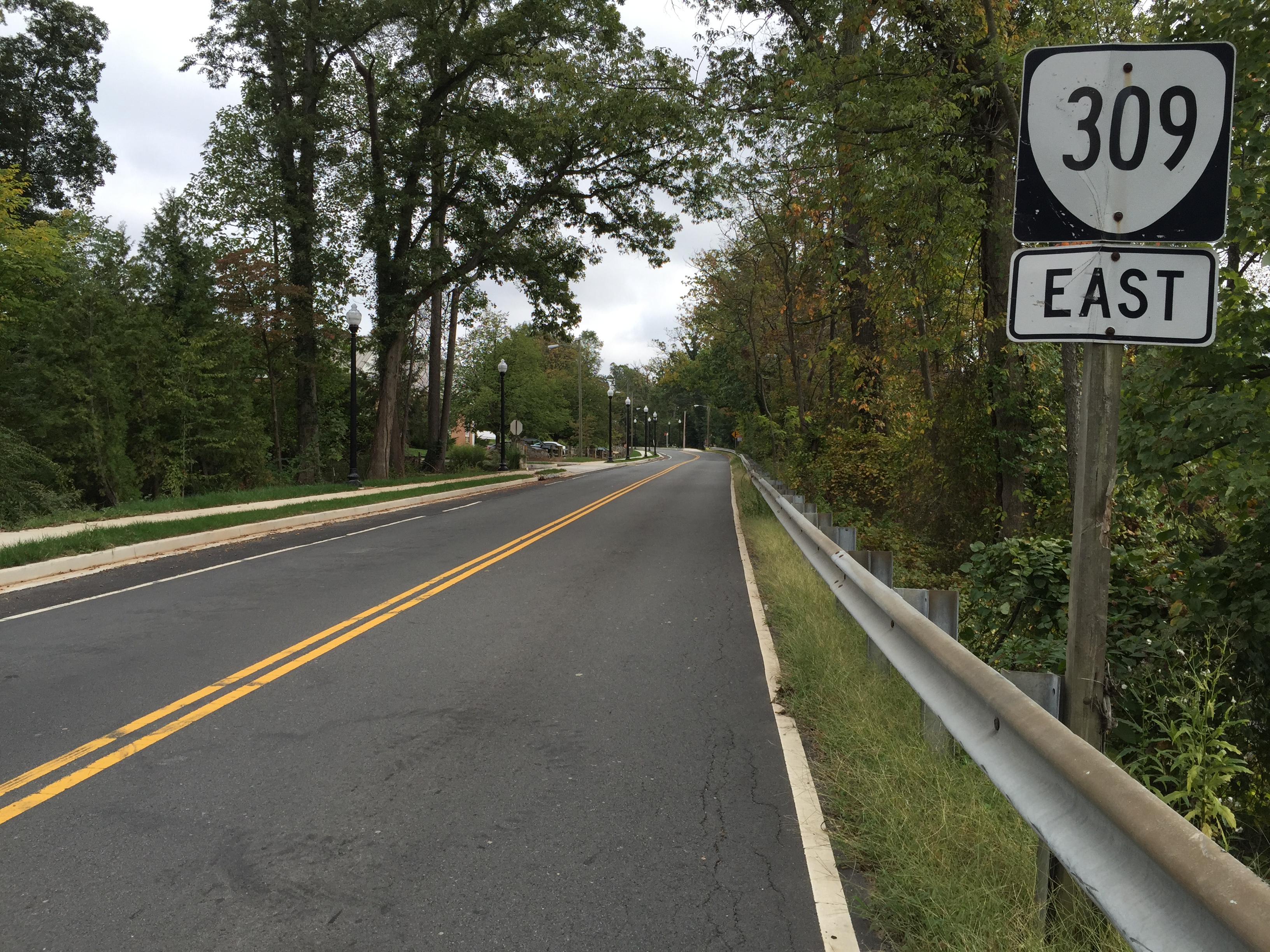 View east along Virginia State Route 309 (Old Dominion Drive) at Rock Spring Road in Arlington County, Virginia